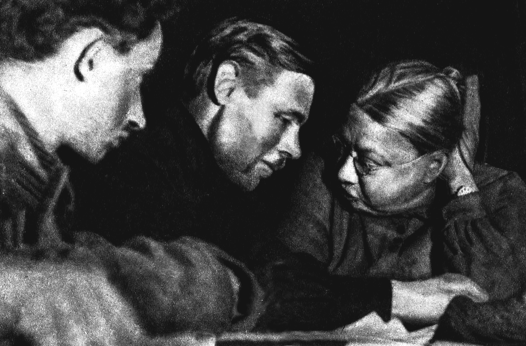 Nadezhda Krupskay with the workers of Electric Plant